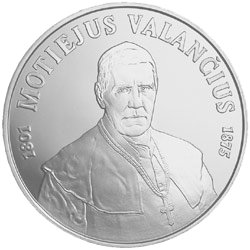 50 litas coin issued to commemorate the 200th birth Anniversary of Motiejus Valančius (1801-1875) Silver Ag 925 Quality proof Diameter 38.61 mm Weight 28.28 g The words on the edge of the coin: LIETUVIŠKAS ŽODIS, RAŠTAS IR TIKĖJIMAS - TAUTOS GYVASTIS (THE LITHUANIAN WORD, WRITING AND FAITH ARE THE VITALITY OF THE NATION) The designer of the coin is Rimantas Eidejus Mintage 2,000 pcs Issued 2001 Distributed 2,000 pcs The coin was minted at the state enterprise Lithuanian Mint.